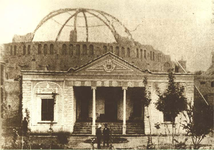 The late 19th centuy or early 20th century (Qajar Era). An old photograph of Tekyeh Dowlat Main Entrance at Golestan Palace, Tehran, Iran